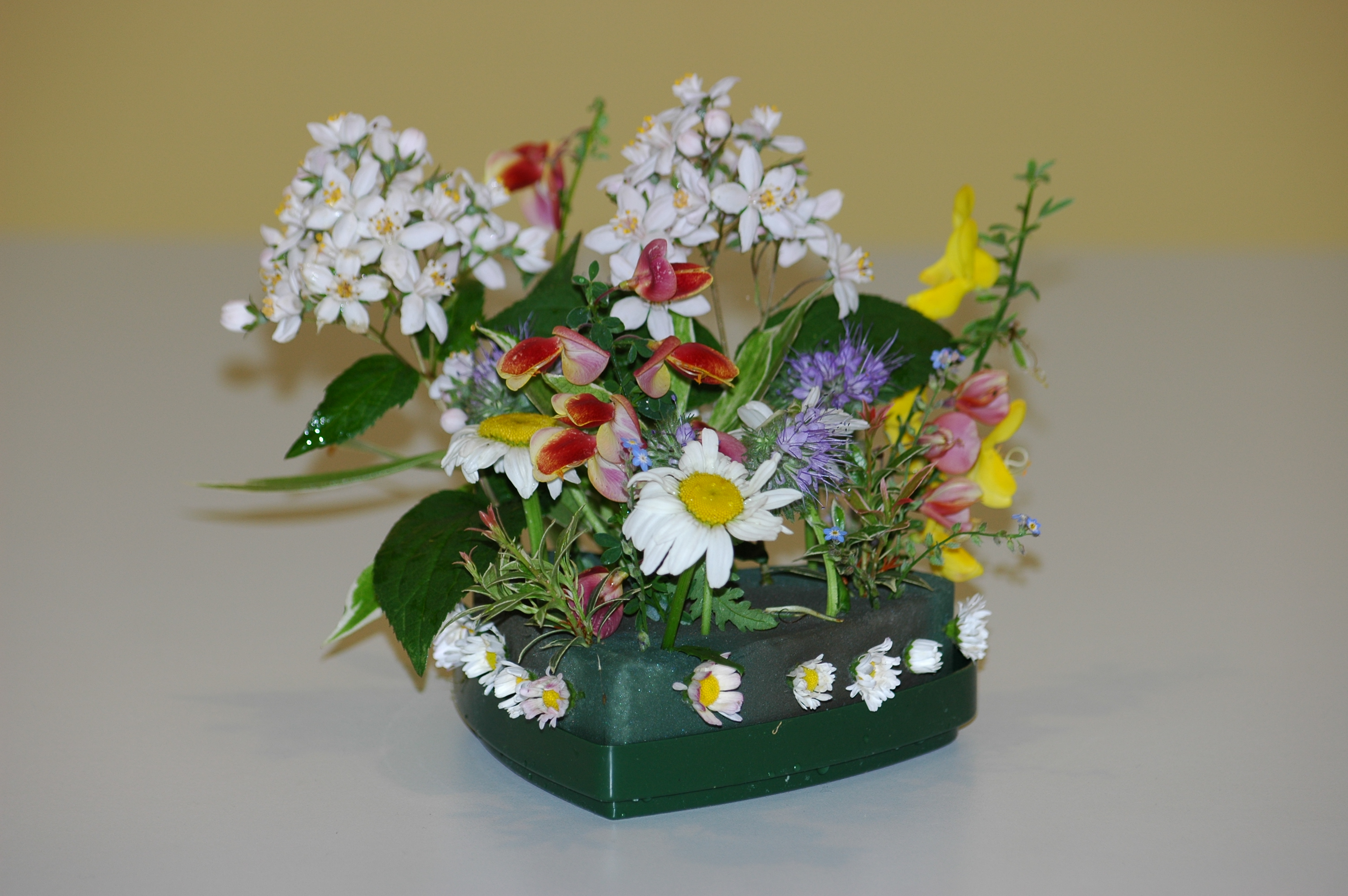 Floral arrangement